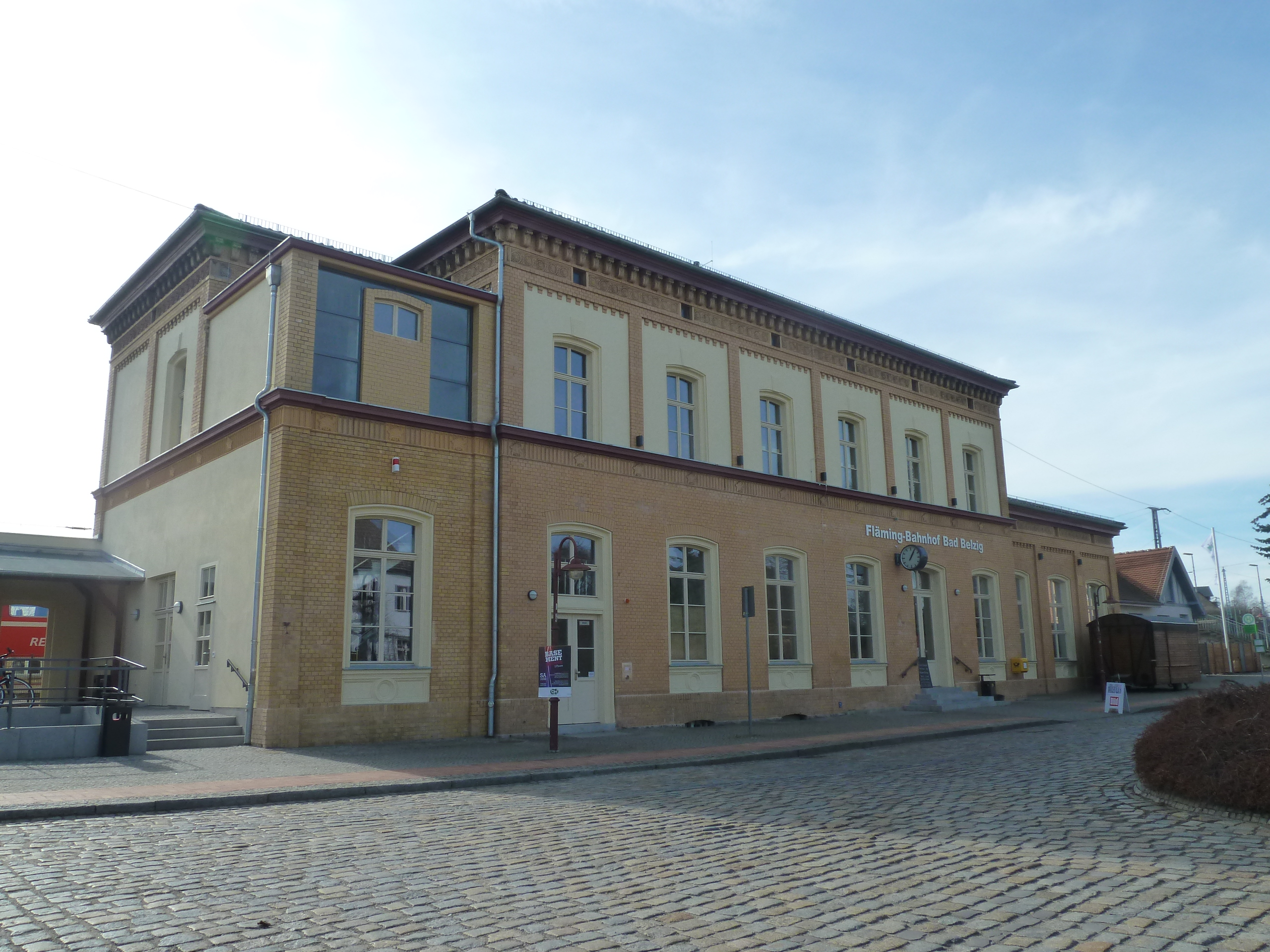 Bad Belzig railway station, street view